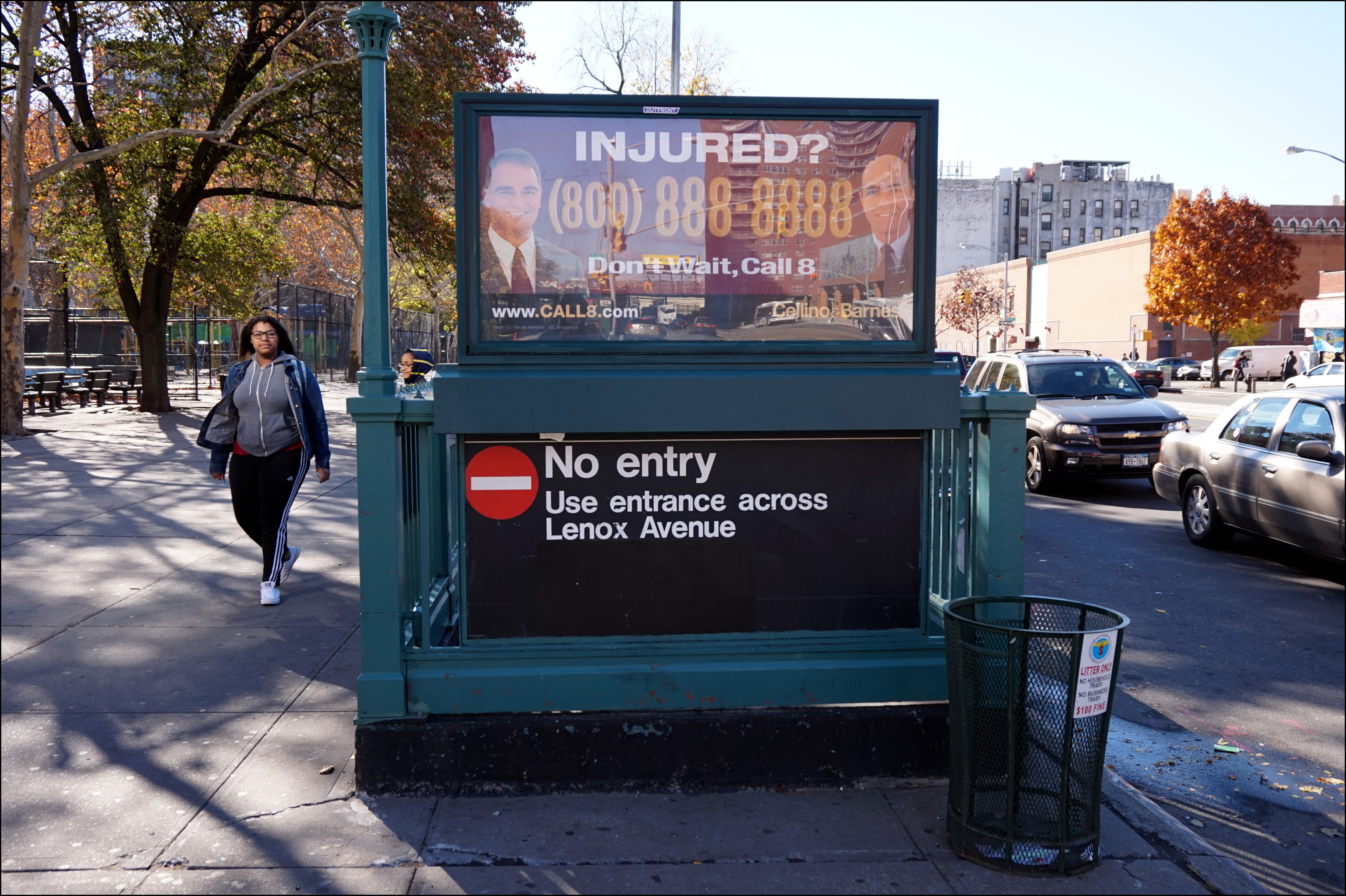 Concourse and Upper Harlem walkabout-14th Novermber 2014